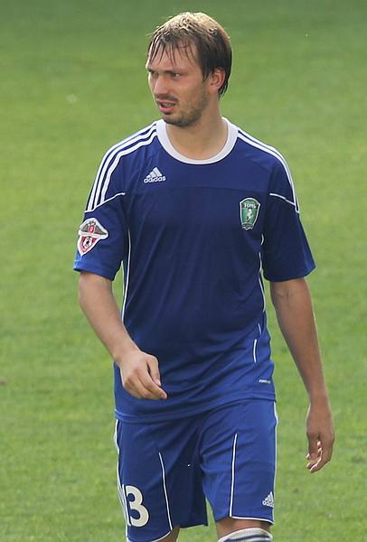 Ilya Gultyaev